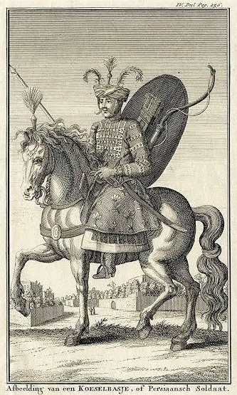 Safavid Ghezelbash